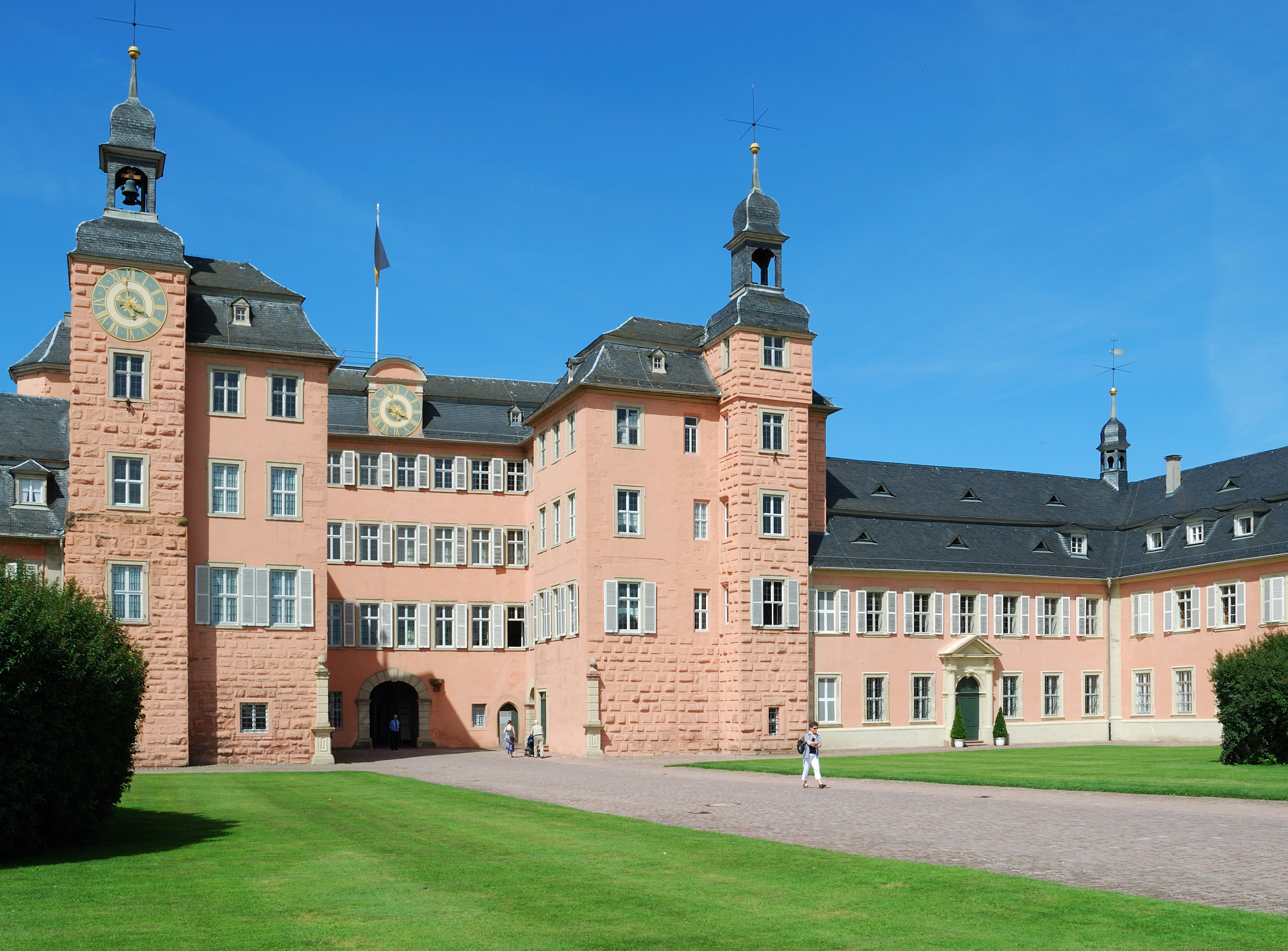 Schwetzingen Castle. Garden Entrance. Baden-Württemberg, Germany.